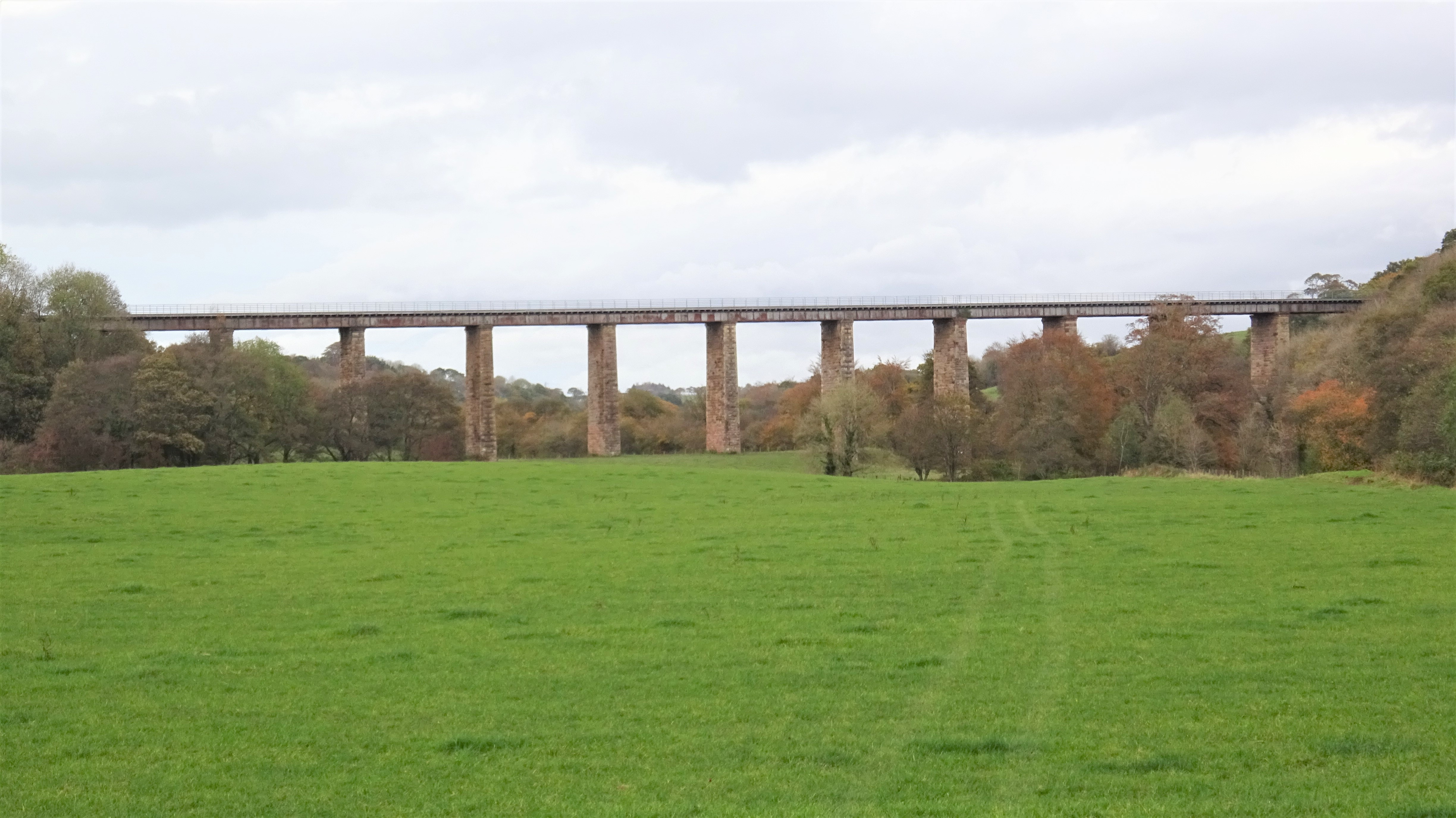 Enterkine Viaduct, By Annbank, South Ayrshire, Scotland.